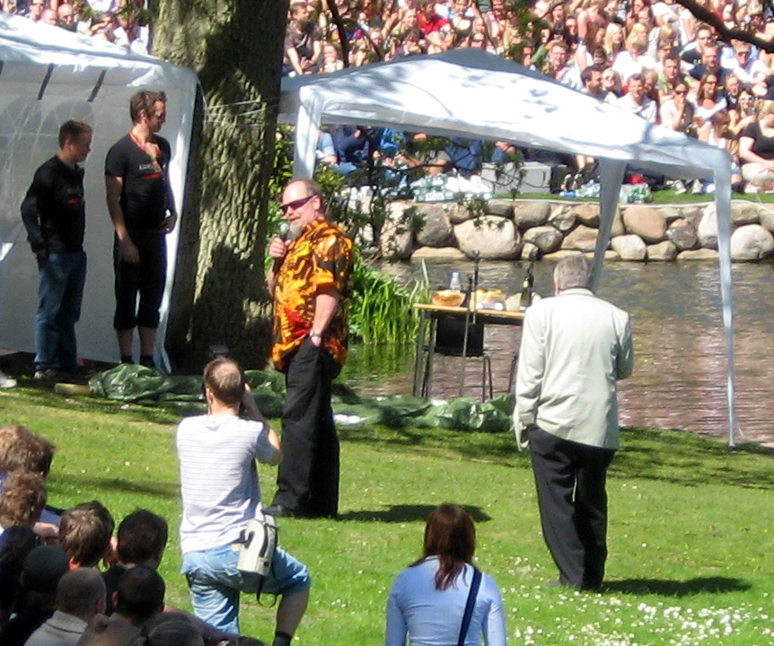 Comedians Jan Monrad and Søren Rislund at gattering in universitetsparken (campus) at Aarhus Universitet (Aarhus University), Denmark.